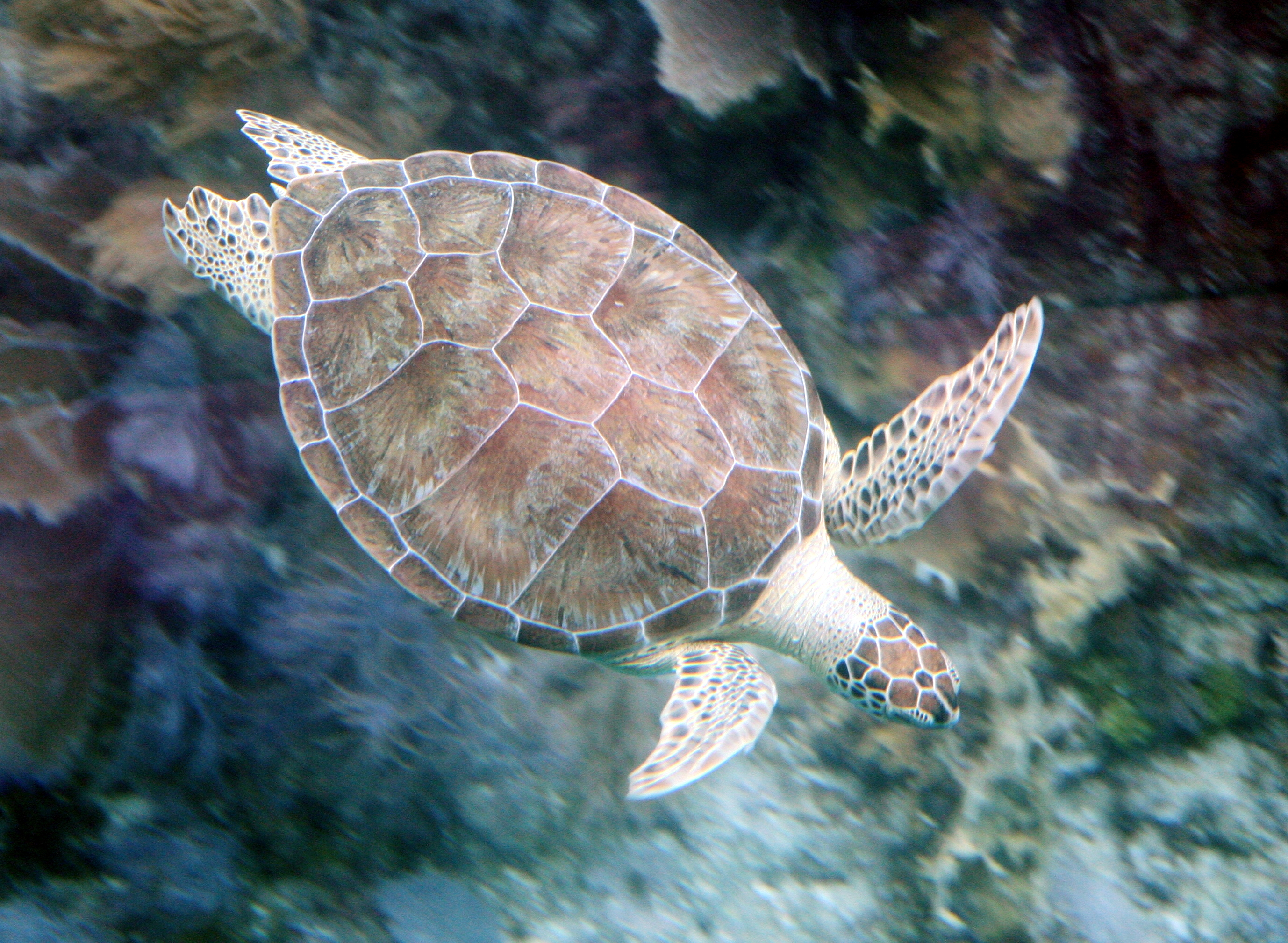 Green Turtle seen from a glasbottom boat at John Pennekamp Coral Reef State Park, Key Largo, Florida